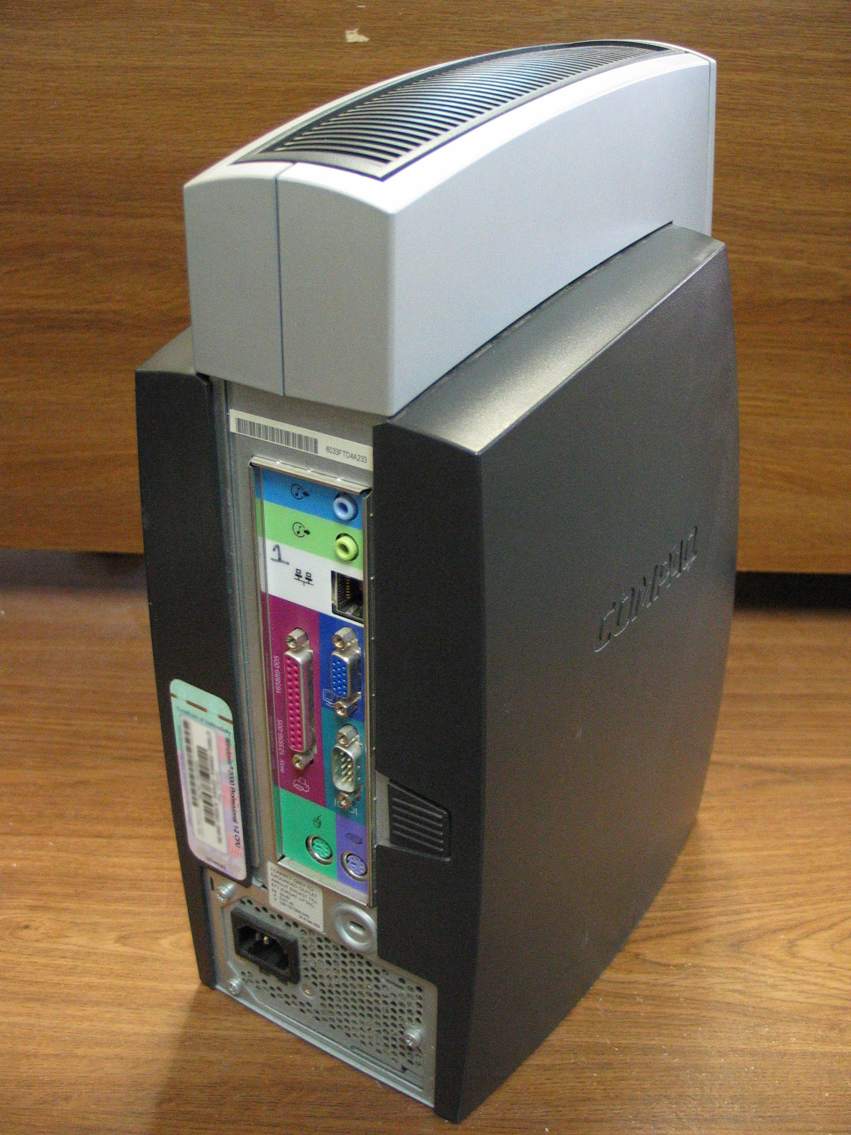 iPaq Desktop rear panel with legacy ports